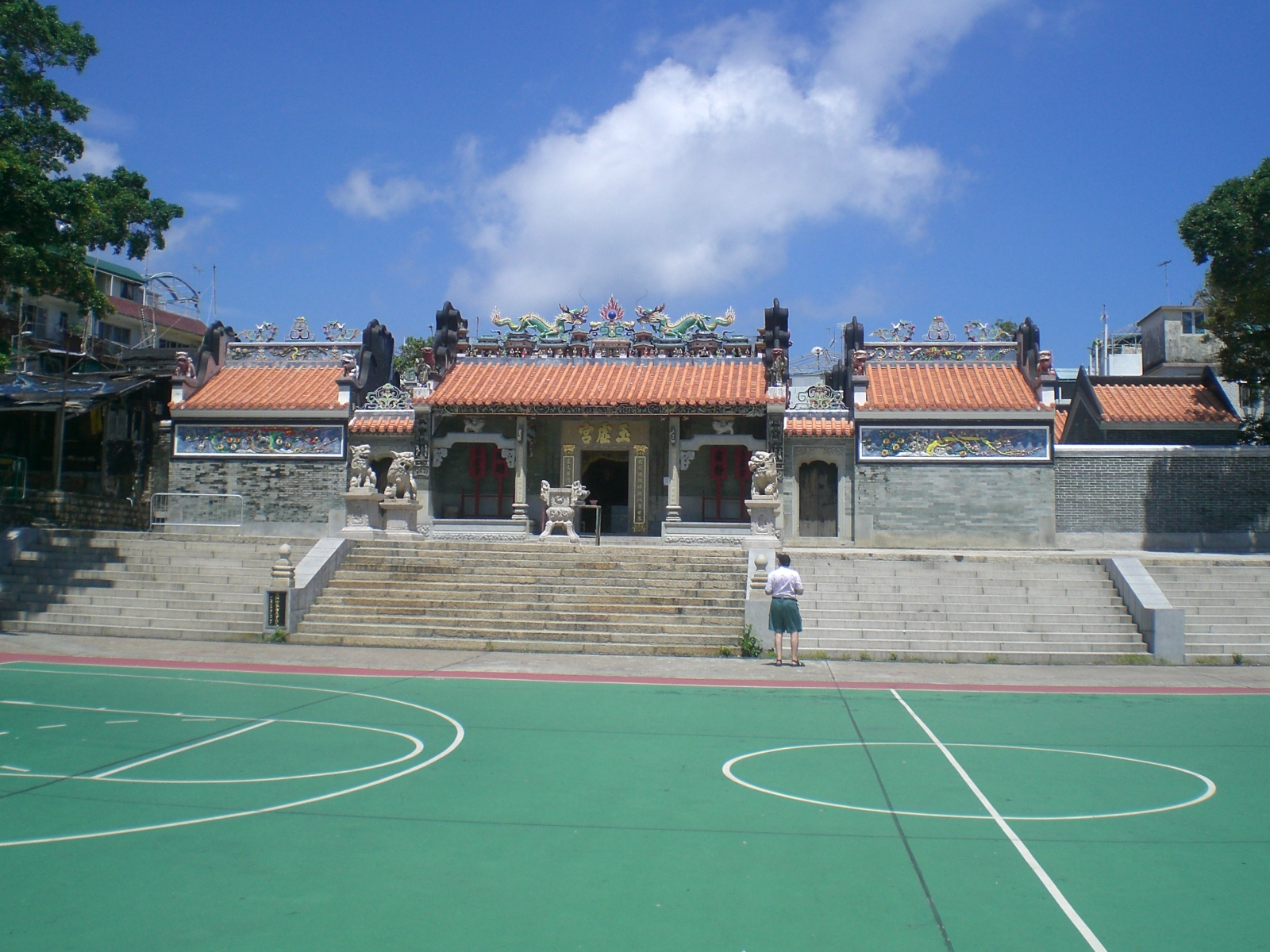 長洲玉虛宮，又名長洲北帝廟，正門前的籃球場及其它設施。